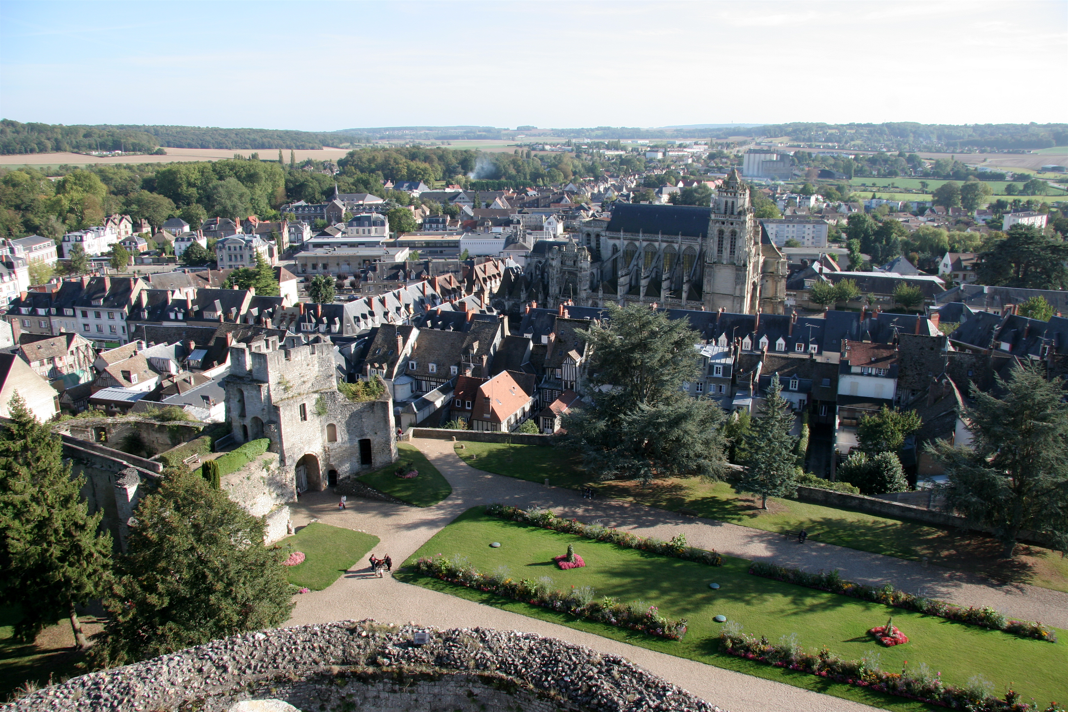 Gisors, Eure, France. General view from the top of the dungeon